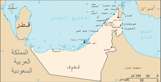 map of the United Arab Emirates, converted directly from CIA World Factbook GIF.